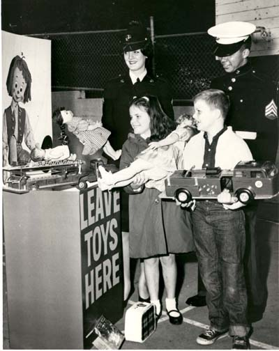 A Toys For Tots publicity photo found at: "The annual Toys for Tots campaign was initiated by reservist Major William Hendricks as a pilot program in 1947 and official adopted by the Marine Corps the next year. It was firmly established as a nationwide public affairs project by 1953.(Official Marine Corps Photo A412958)"